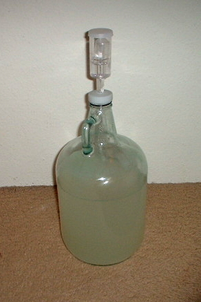 A bottle of sugar wine (Finnish:Kilju) in its 5th day of fermentation. There is an airlock on the top of the bottle to keep germs out.